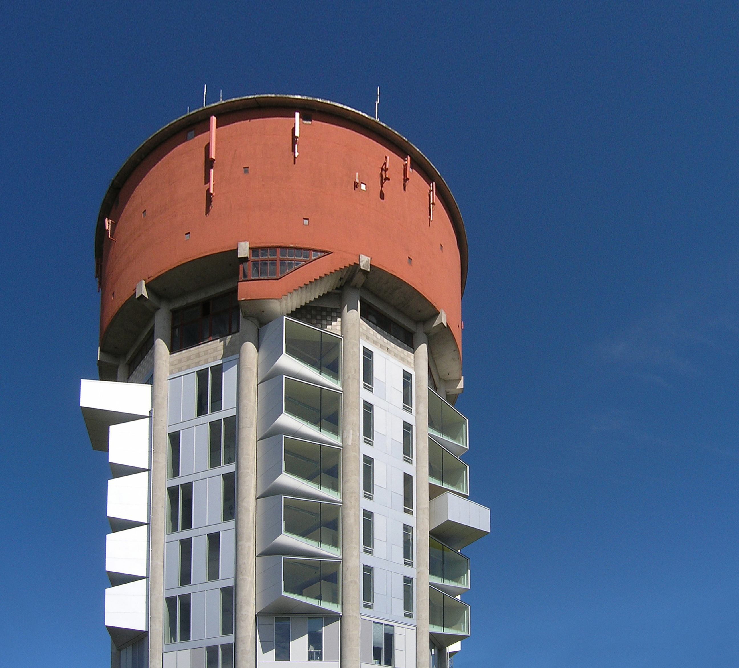 Jægersborg Watertower north of Copenhagen, converted into student housing by Dorte Mandrup Architects.